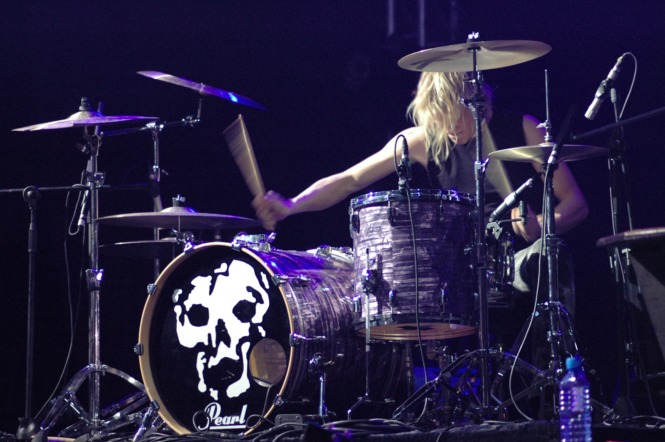 Mikko Siren from Apocalyptica at Metalmania Festival 2005 in Poland